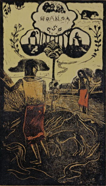 Part of the series Suite Noa Noa, ten woodcuts drawn by Paul Gauguin after his first travel to Tahiti. They illustrate a book of the same name. (Book - Category:Suite Noa Noa|engraving - Wikipedia (Catalan)) .